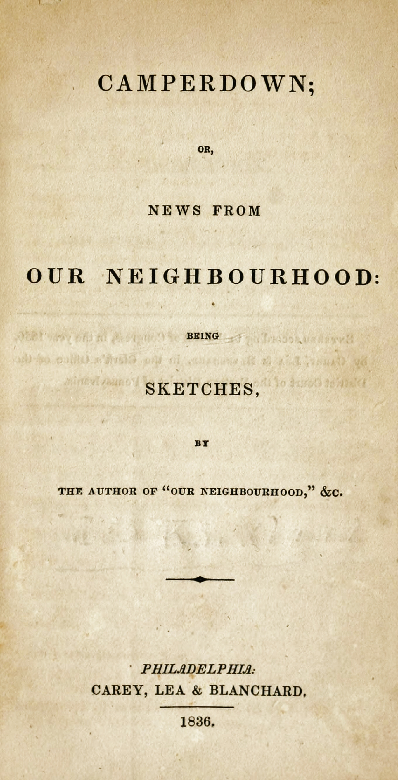 1st edition title page